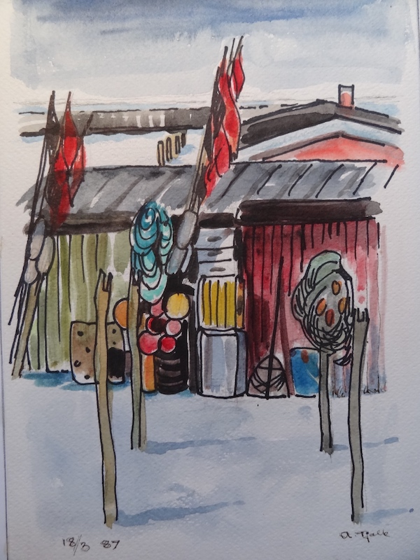 Astrid Tjalk Watercolour Hornbæk harbour 1987 I